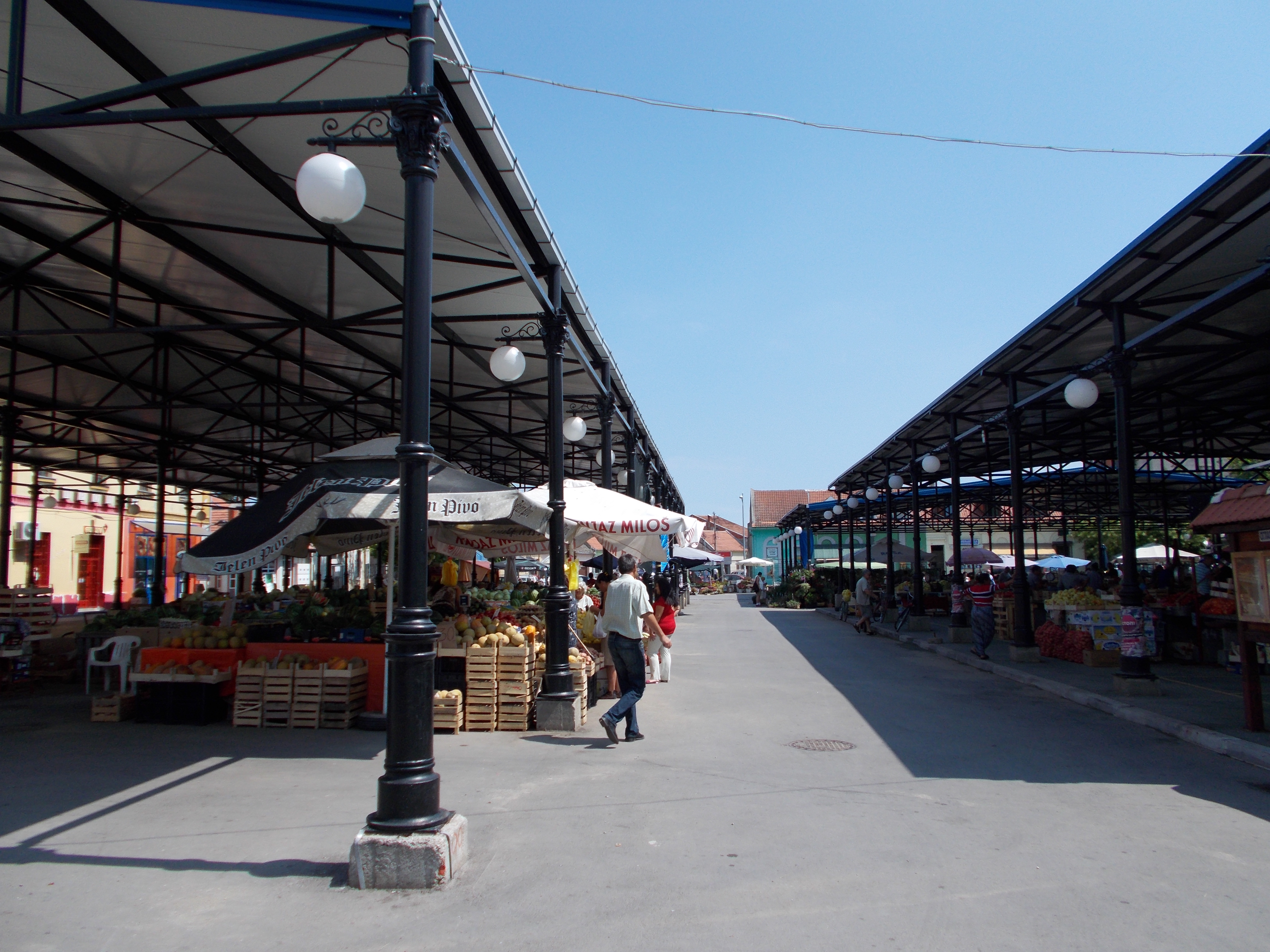 Free market at Vrshac.